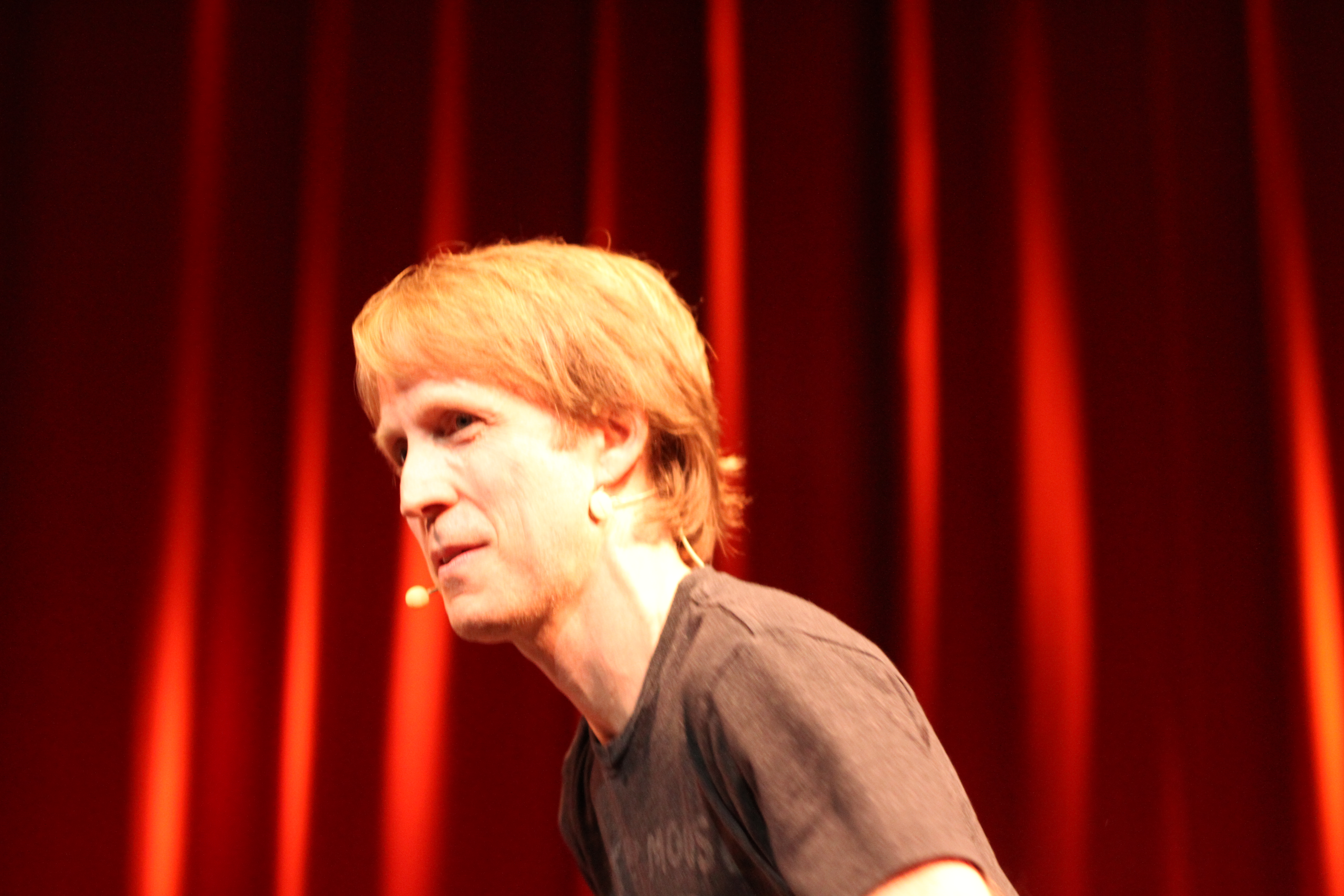 James Arnold Taylor at Star Wars Weekends 2011